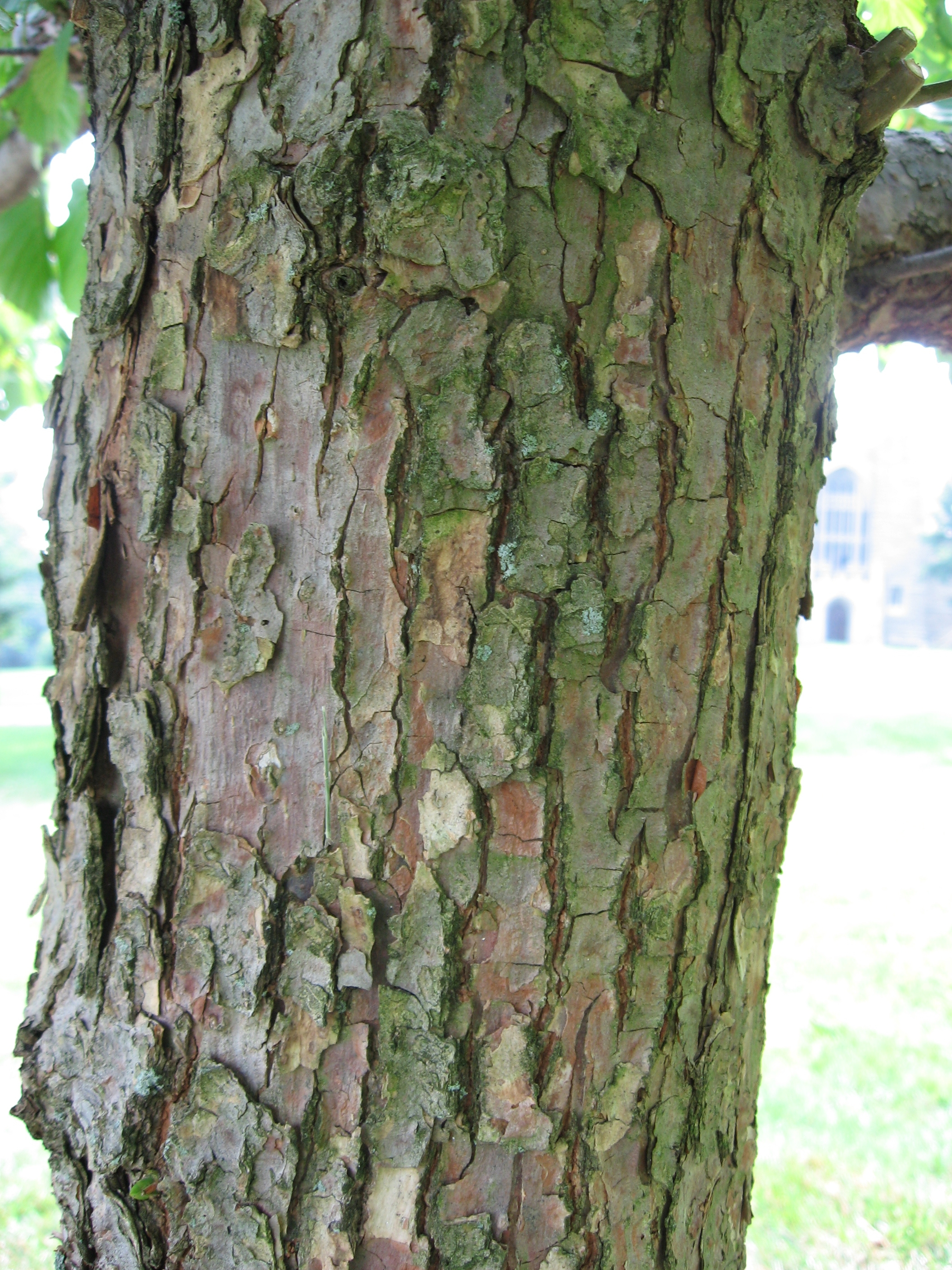 A picture of the bark of Davidia involucrata